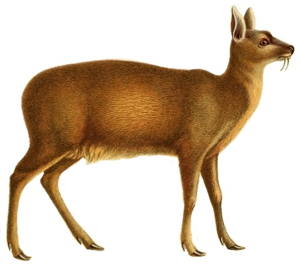 Moschus chrysogaster